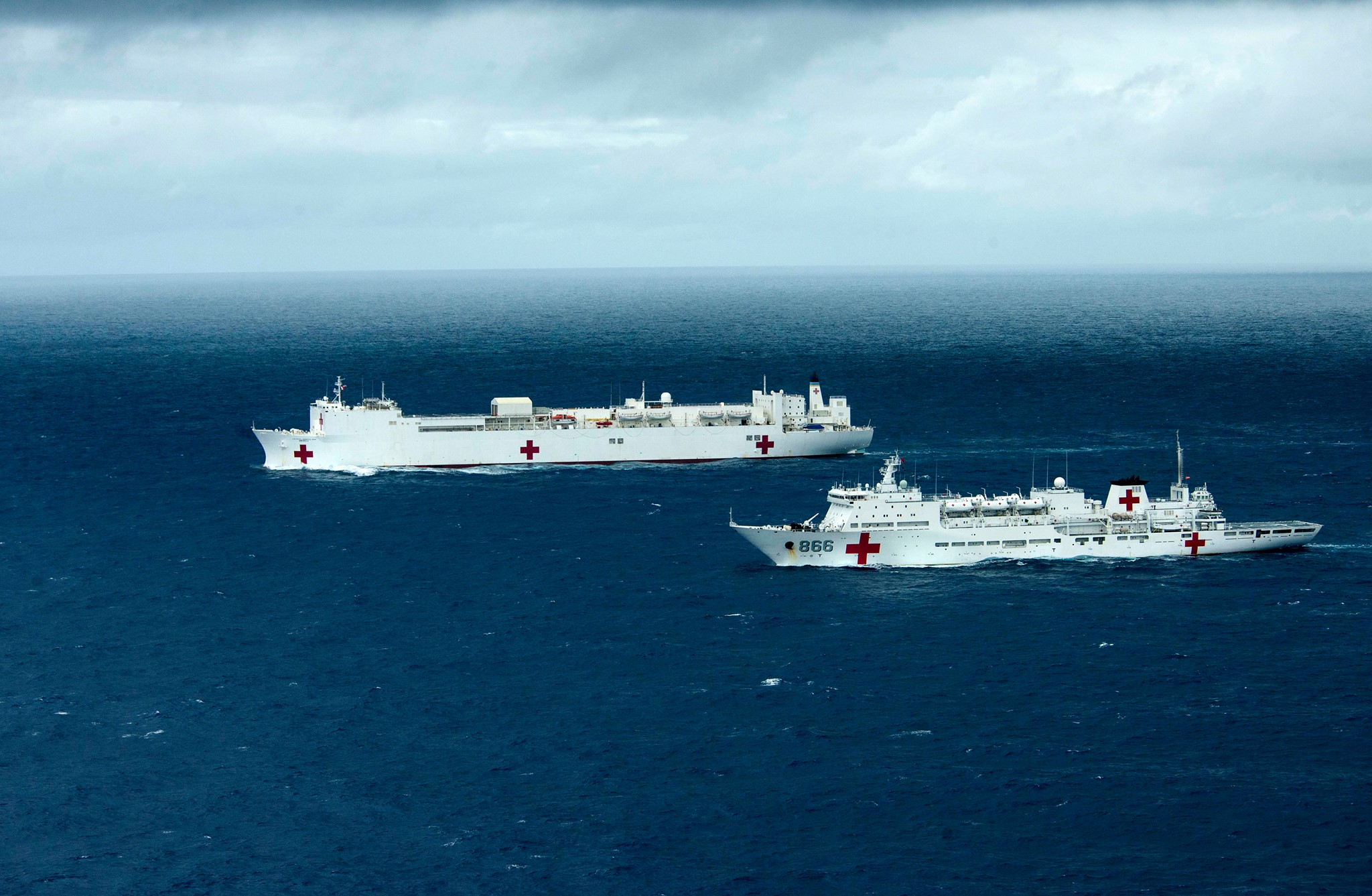 Military Sealift Command hospital ship USNS Mercy (T-AH 19) and the People’s Republic of China, People’s Liberation Army (Navy) hospital ship Peace Ark (T-AH 866) transit the Pacific Ocean during Rim of the Pacific (RIMPAC) Exercise 2014.